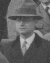 Frank Löbell, Mathematical Society Jena, visitors' conference at Abbeanum in Jena, 26th until 28th October 1930.